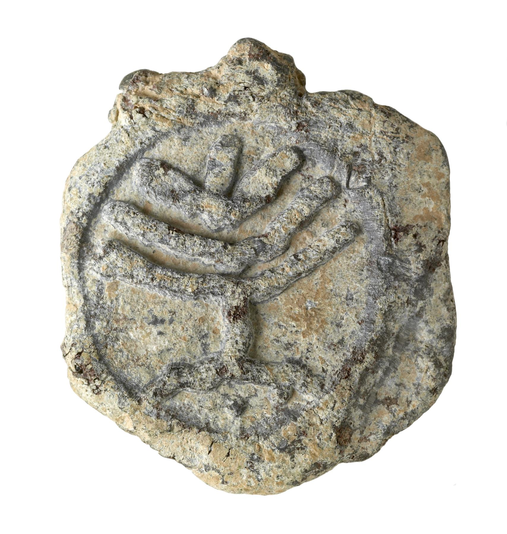 Tokens like this one, made for private use, were at times also inscribed with the name of the owner. In this period, the menorah was considered a symbol of the Jewish hope for deliverance from persecution, and was imprinted on small amulets throughout the eastern Mediterranean region.